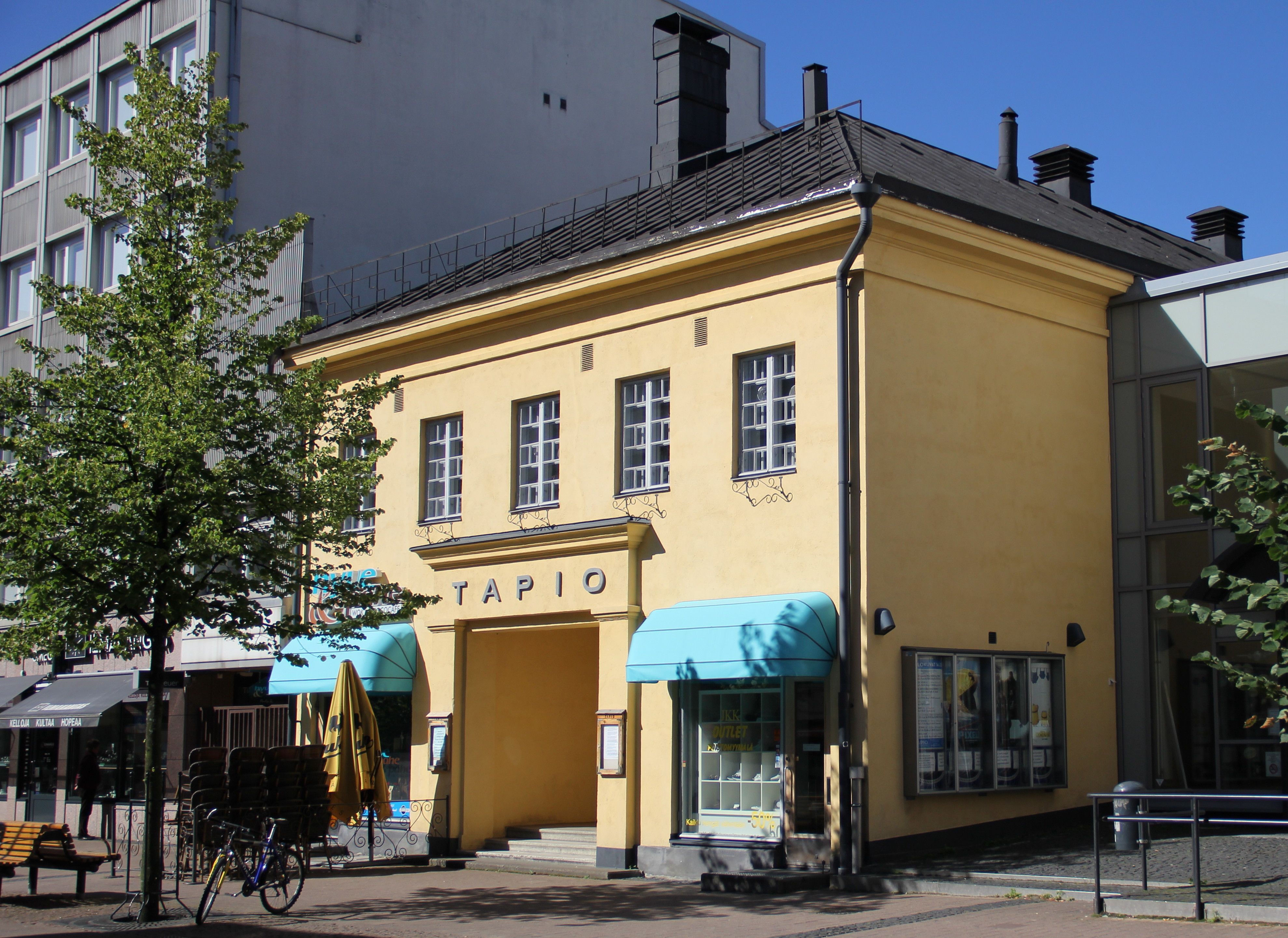 Movie theatre Kino Tapio, Joensuu, Finland. - Kauppakatu 27.